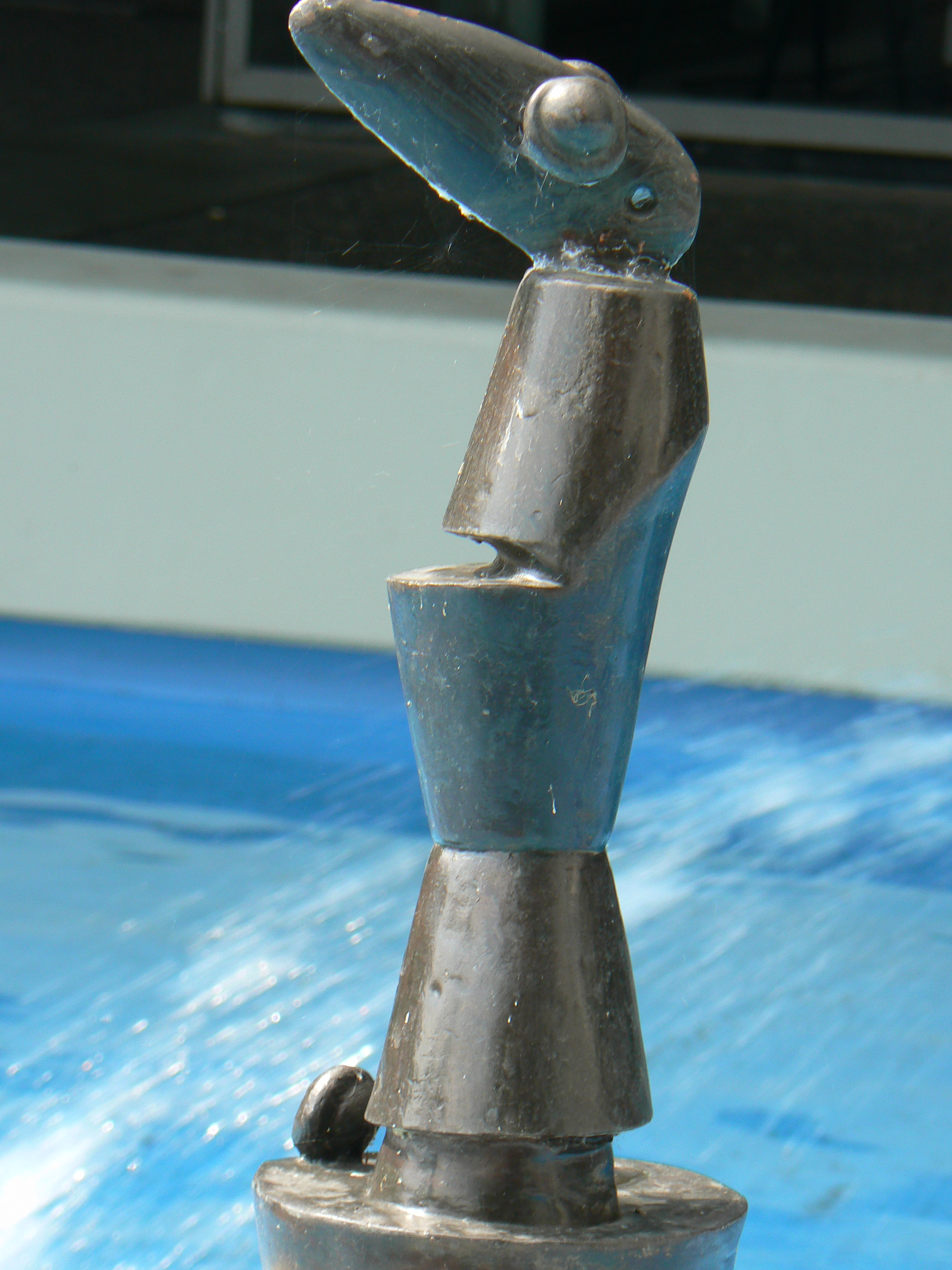 Collection: Skulpturenmuseum Glaskasten Location: City Center Marl/Germany Sculpture: Habakuk 4/6 (ca. 1934) Sculptor: Max Ernst